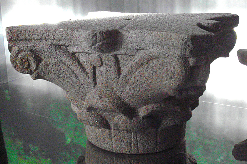 Corinthian pilar of the Ptolemaic period, Egypt. Le Grand Palais exhibition. Personal photograph 2006.